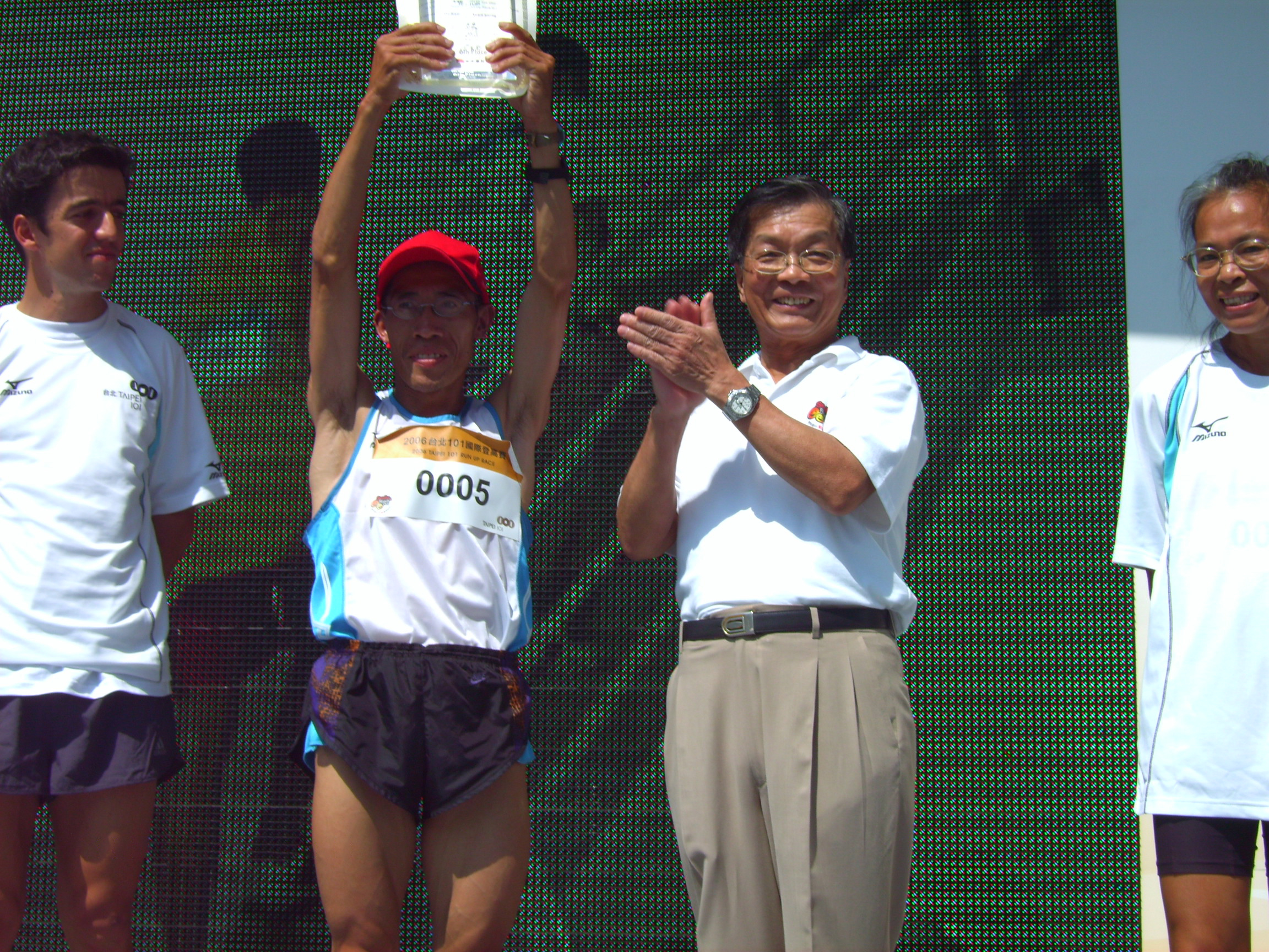 2006 Taipei 101 Run Up: Fu-Tsai Chen wins the 6th place in Men's Elite Group, the men's best Taiwanese Runner in this game.